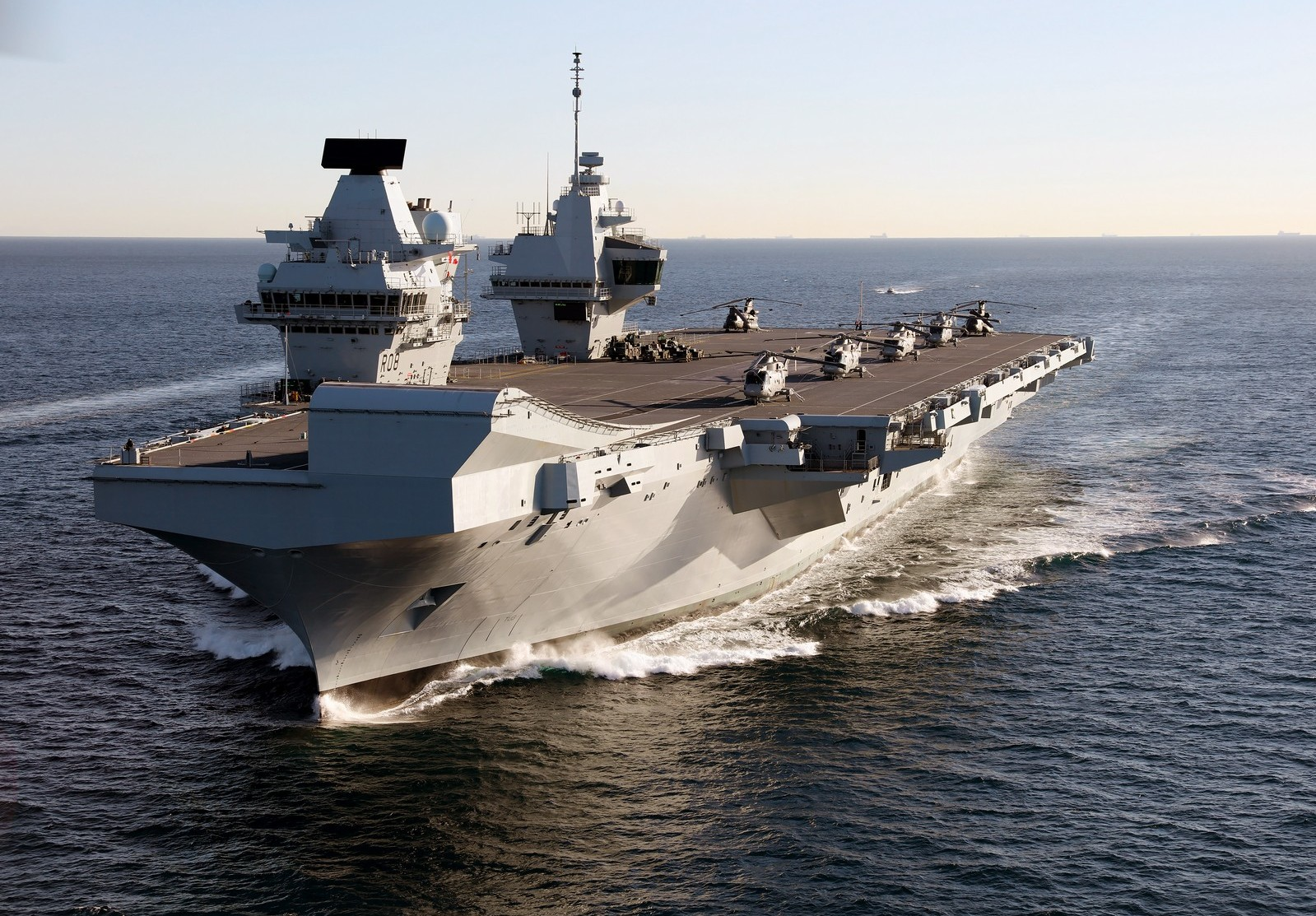 The Royal Navy's new aircraft carrier HMS Queen Elizabeth arrives in Gibraltar for her first overseas port visit. The 65,000 tonne future flagship was conducting a routine logistics stop having left her home in Portsmouth a week earlier for helicopter trials. (MM180007)